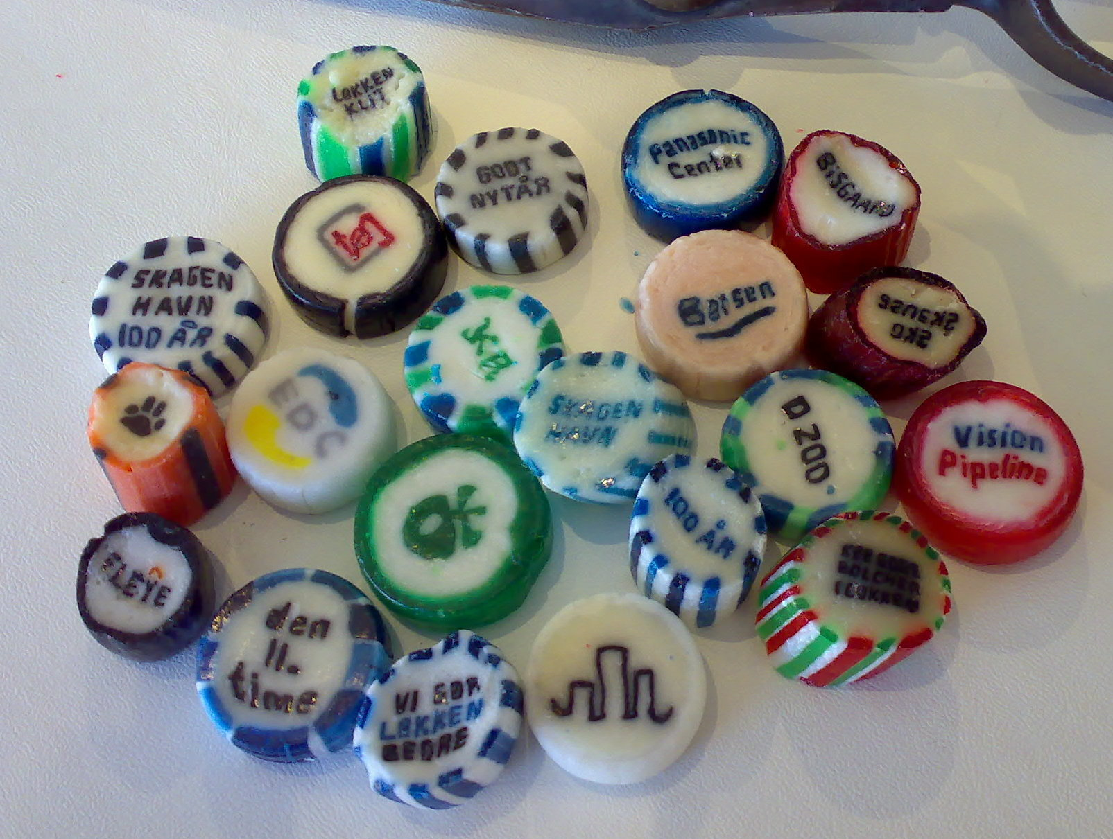 Slices of rock made in Løkken